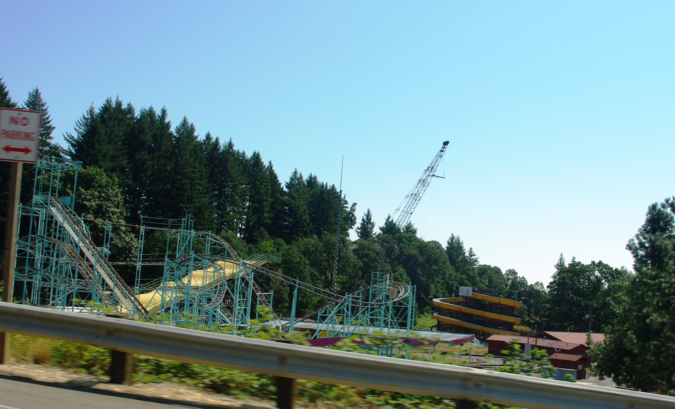 Thrill-Ville USA near Turner, Oregon, USA.